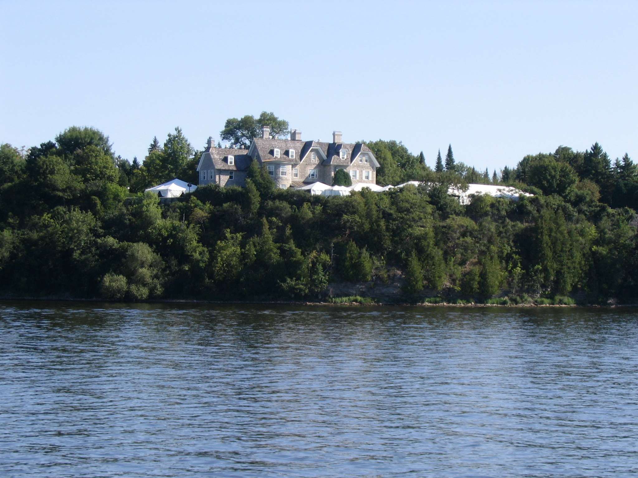 The official residence of the Prime Minister of Canada, 24 Sussex Drive, as seen from the Ottawa River. Ottawa, Ontario, Canada.